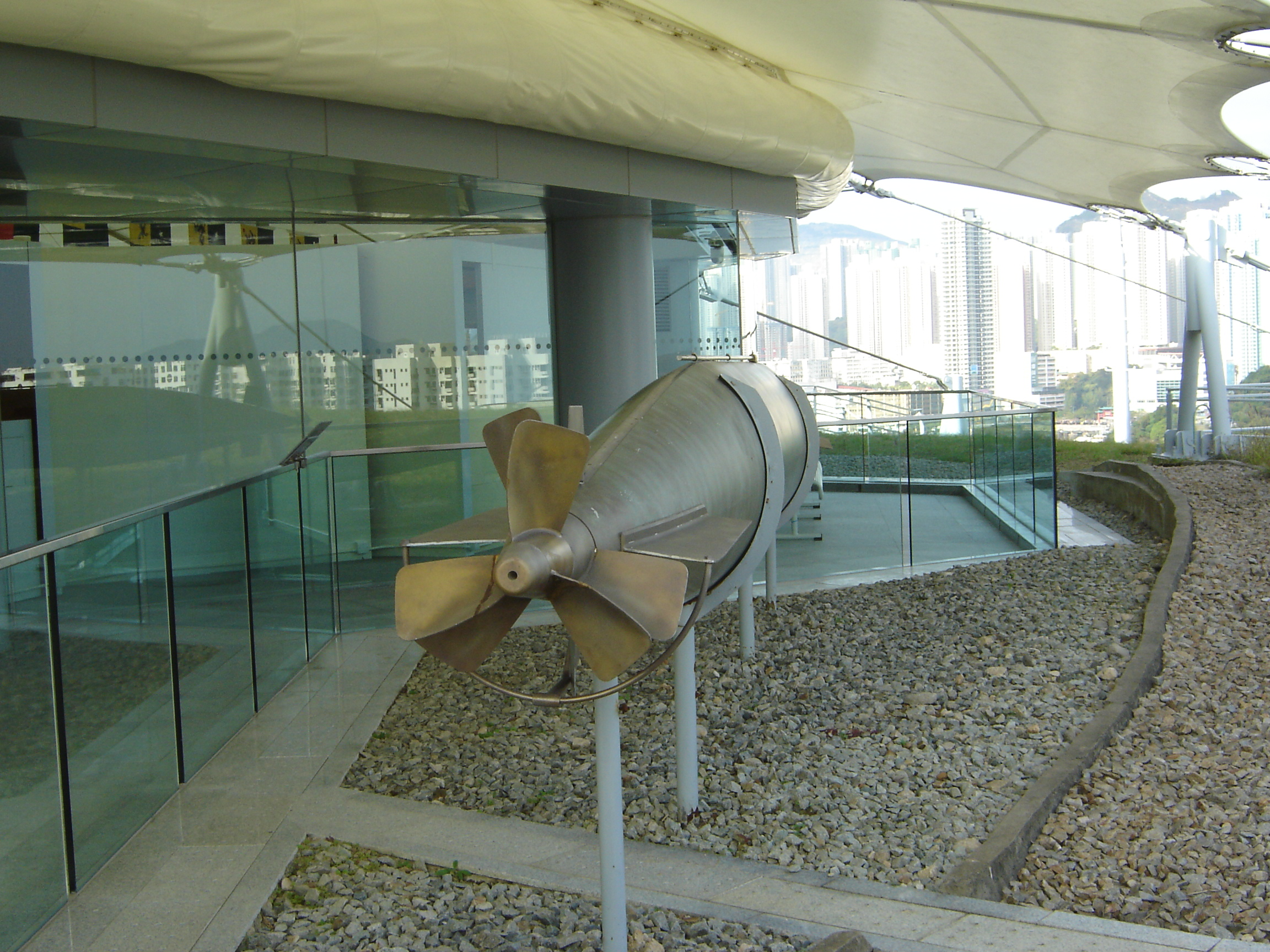 Aft view of replica Brennan Torpedo from Hong Kong Museum of Coastal Defence